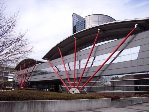 Tokyo Metropolitan University Hino Campus